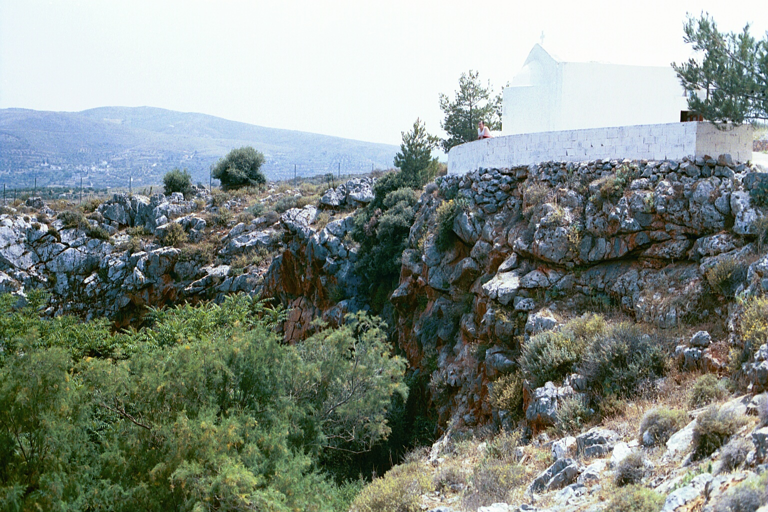 Skotino cave in Crete. The chapel of Aghia Paraskevi is at top right (image somewhat burnt-out). An impressive four thousand year history of votive deposits. Originally they were thrown into the cave. Now they are left in the chapel.